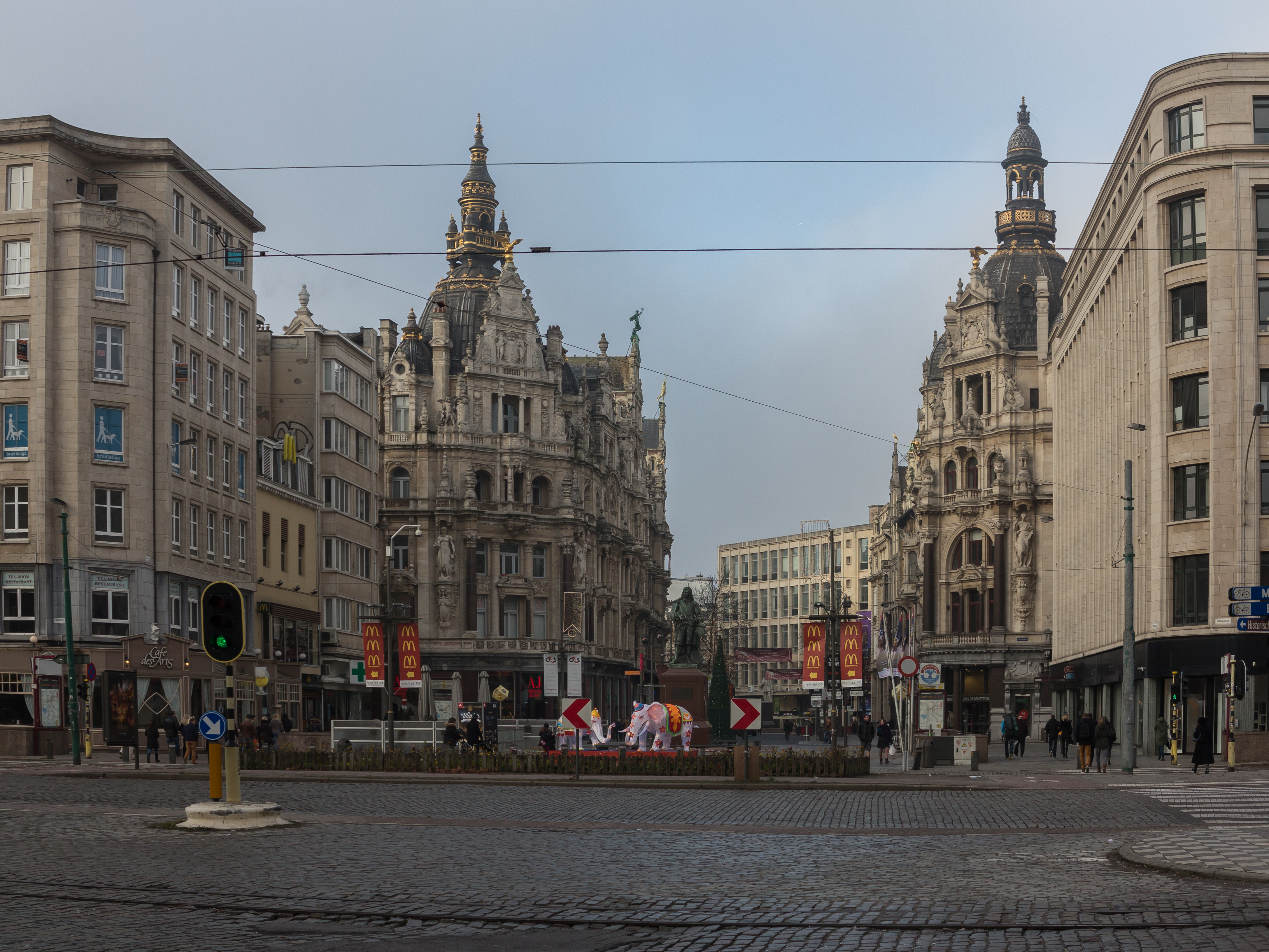 Antwerpen, view to a street: de Terniersplaats